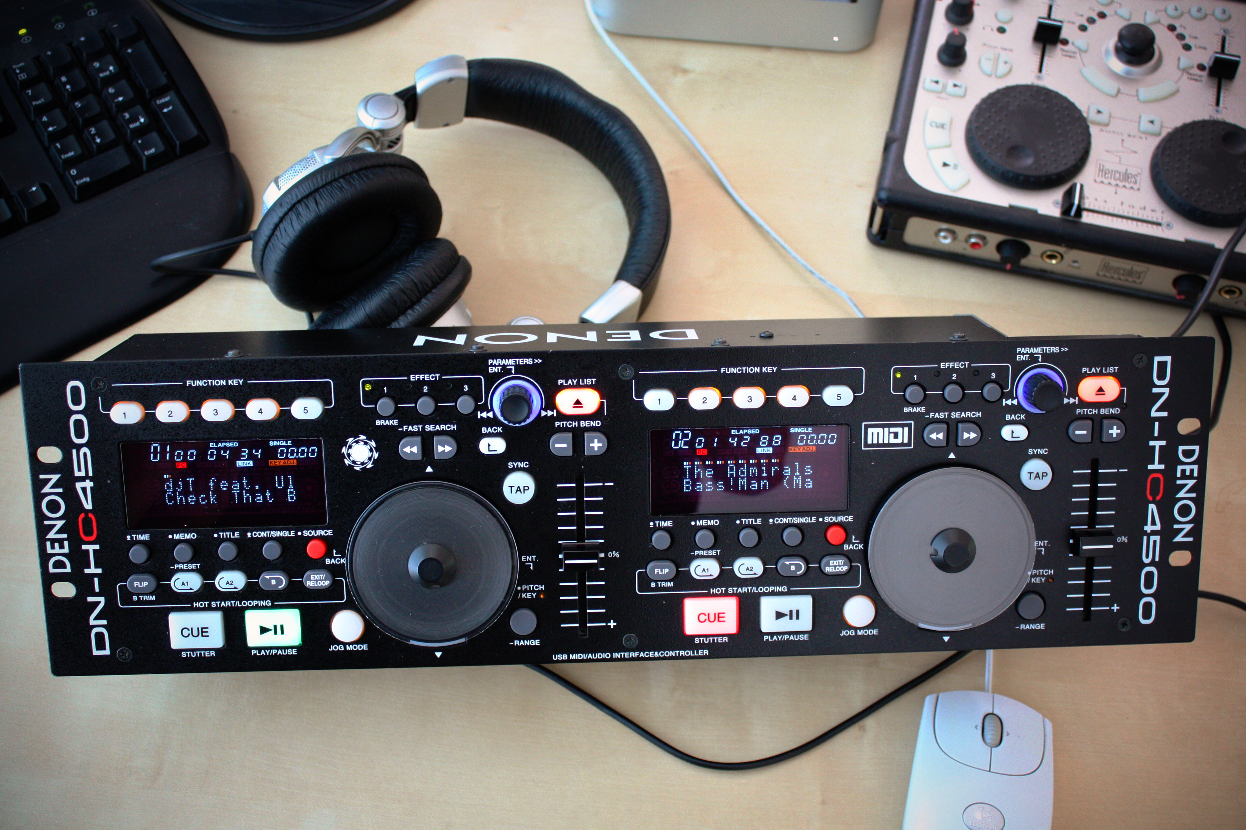 Computer DJ setup with a Denon DN-HC4500 USB MIDI/Audio Interface & Controller. Hercules DJ Console (MK1), Mac Mini, headphones, keyboard and mouse in the background.